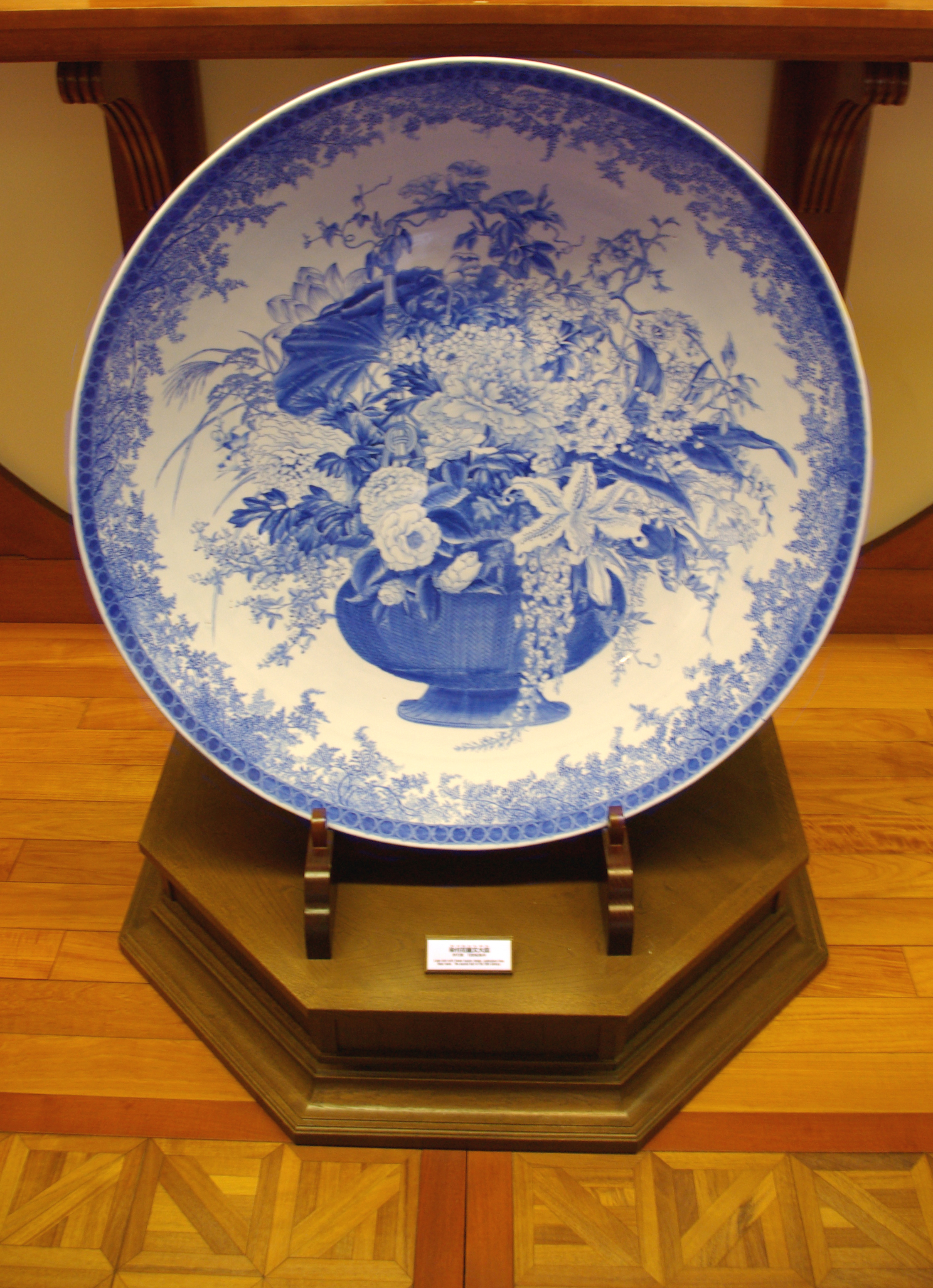 Large Dish of Some Tuke Hana Kago Mon (1873 Vienna World Expo)